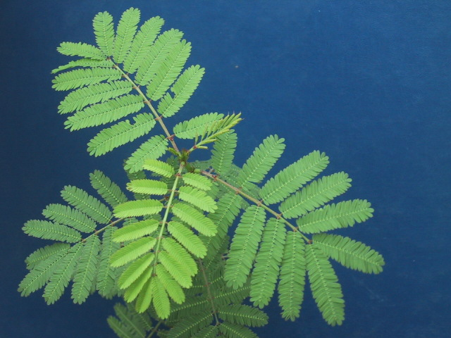 Desmanthus pubescens photo by Chris Gardiner